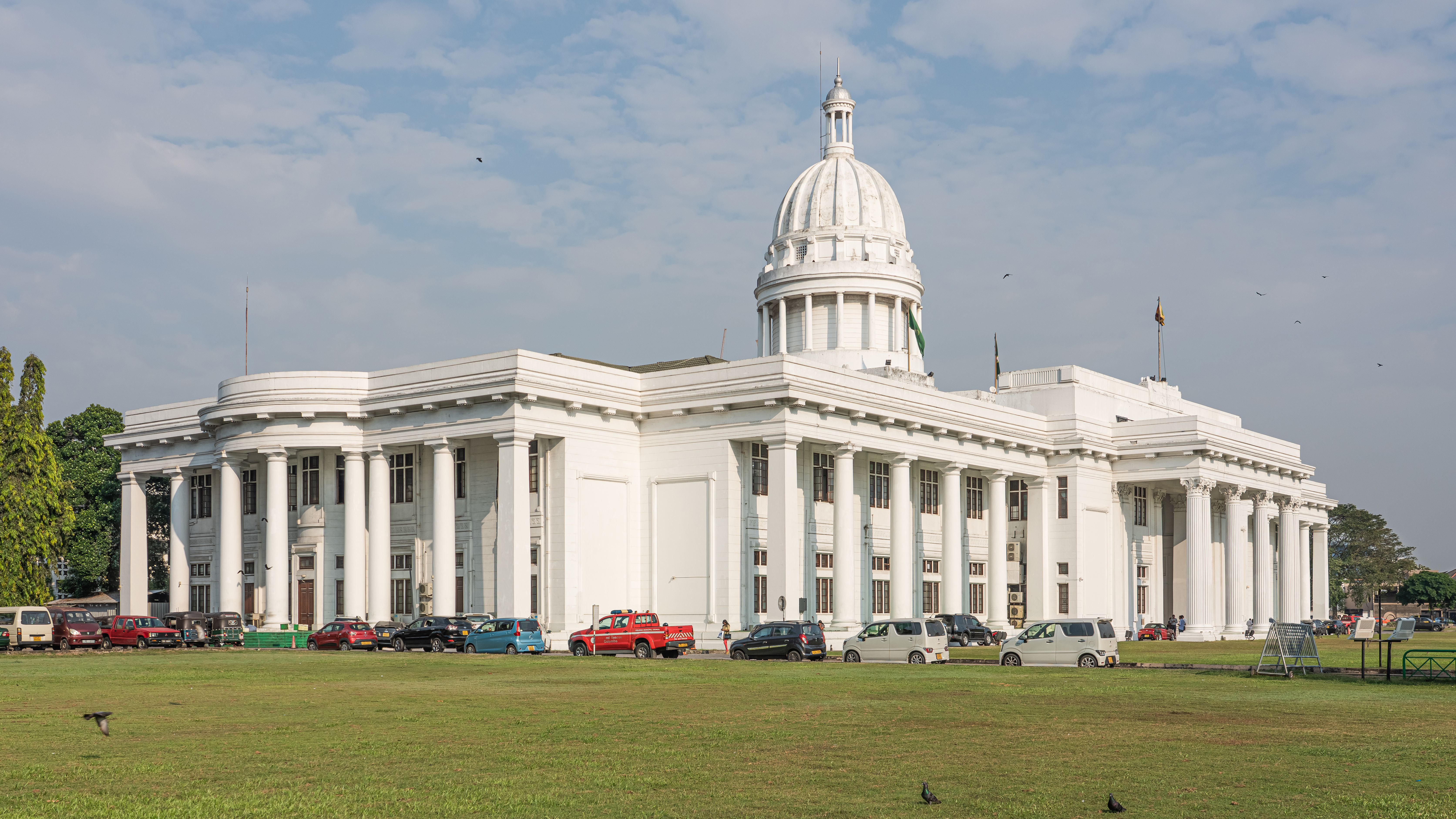 Town Hall in Colombo, Sri Lanka